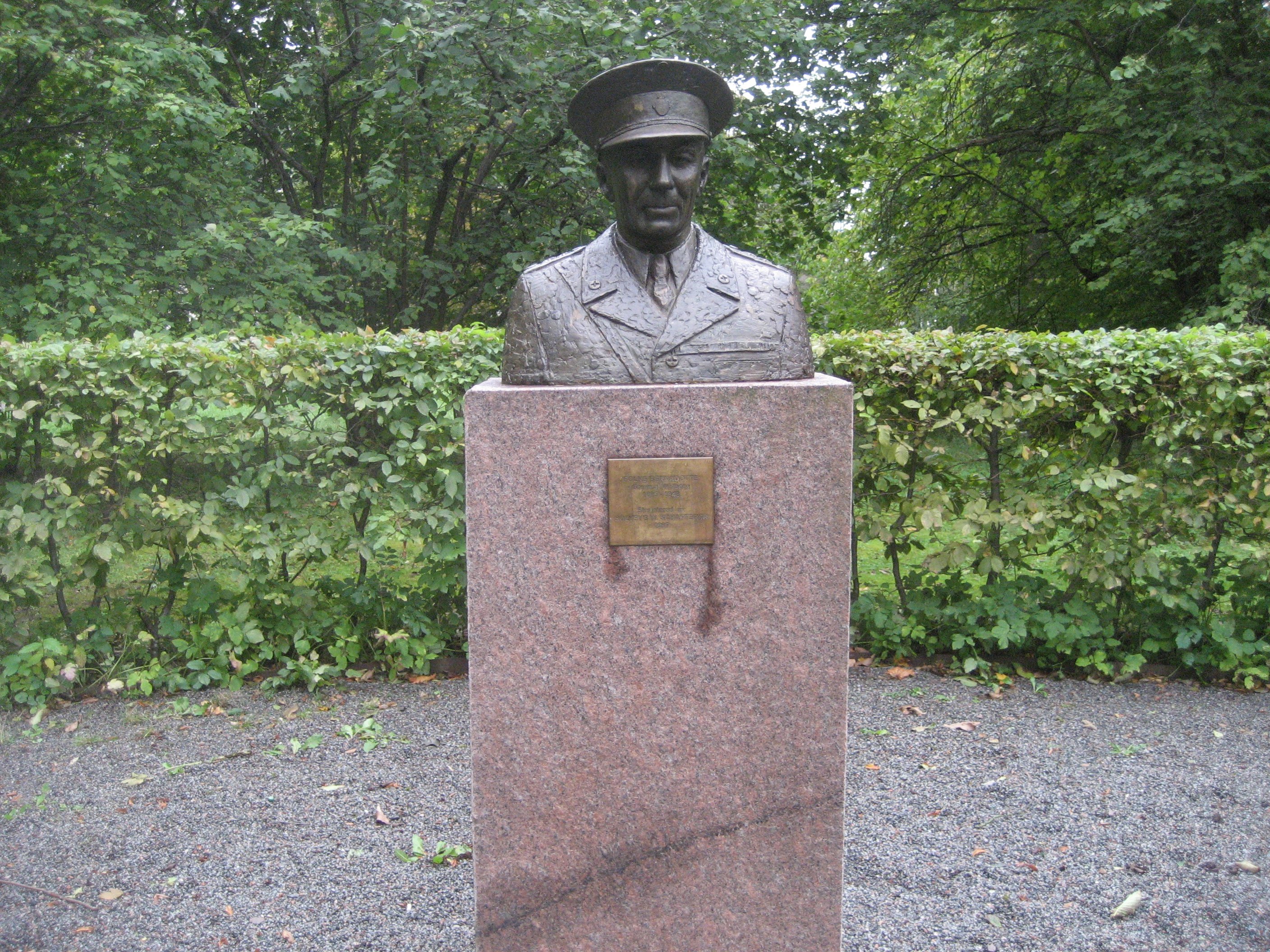 Statue of Folke Bernadotte by Solveyg Schafferer in Engelska Parken in Uppsala (Sweden)